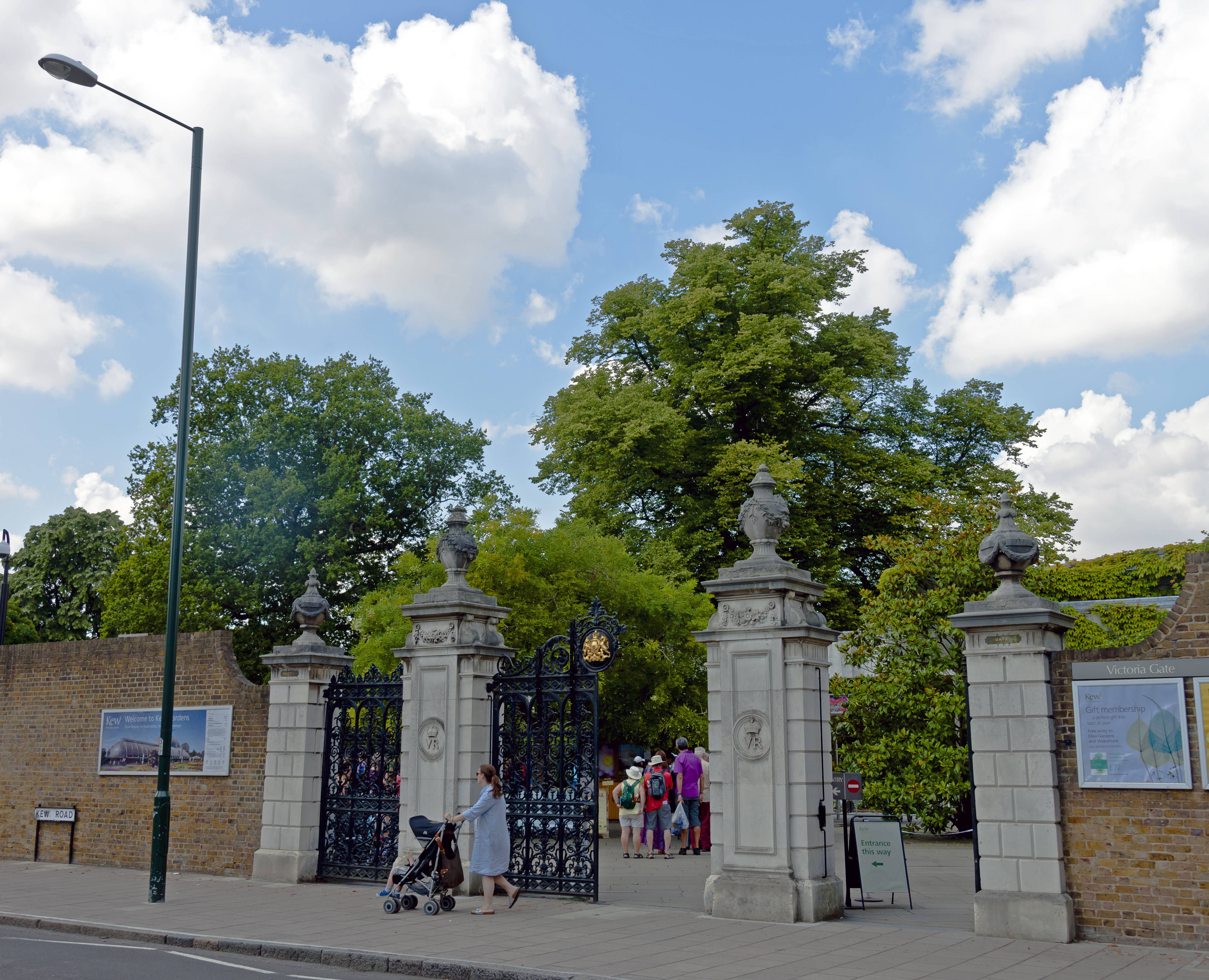 Victoria Gate, the entrance to Kew Gardens most commonly used by those entering from the nearby Tube station